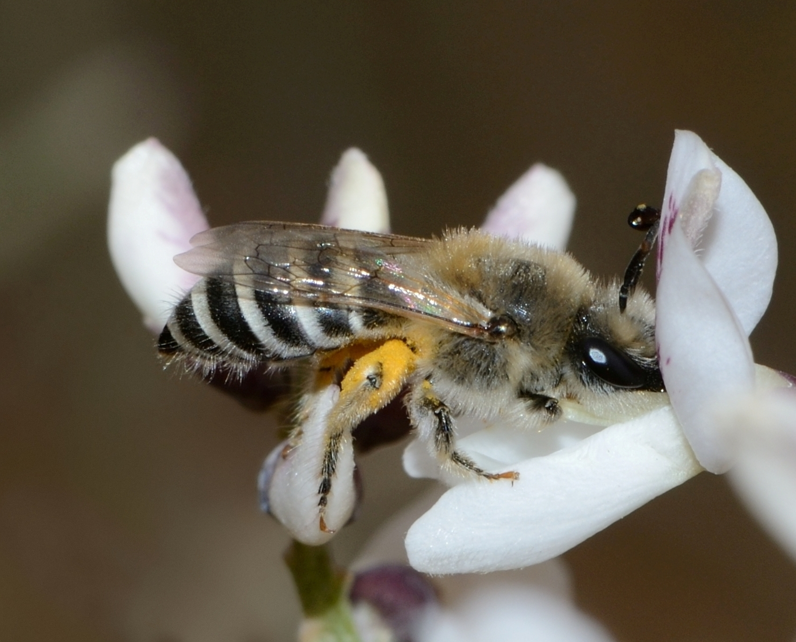 Female bee (Colletes judaicus Noskiewicz, 1955, det. Michael Kuhlmann 2012) collecting nectar from a Retama raetam flower, Holot Mash'abim, Northern Negev, Israel, February 14, 2012.